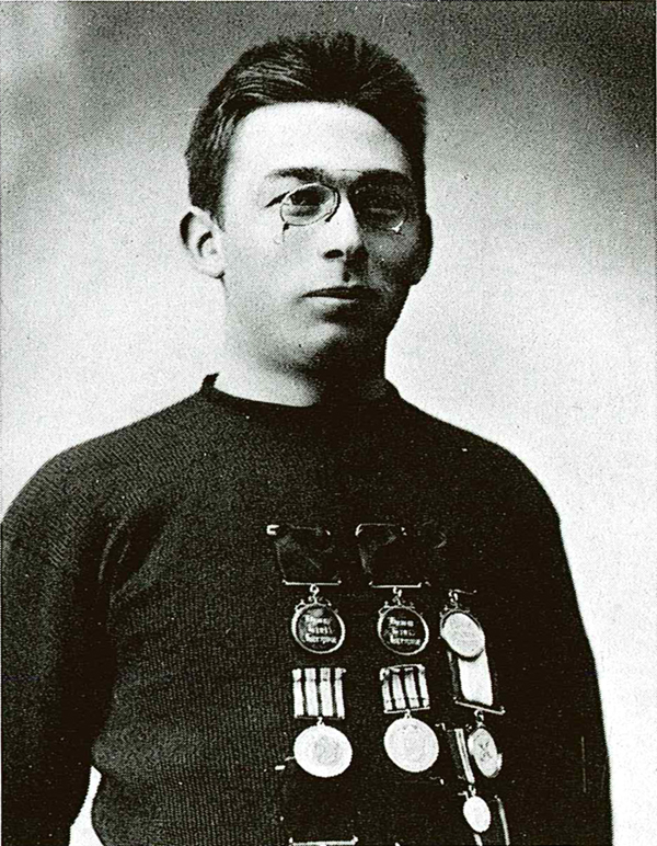 Norwegian speed skater Einar Halvorsen (1862-1964).